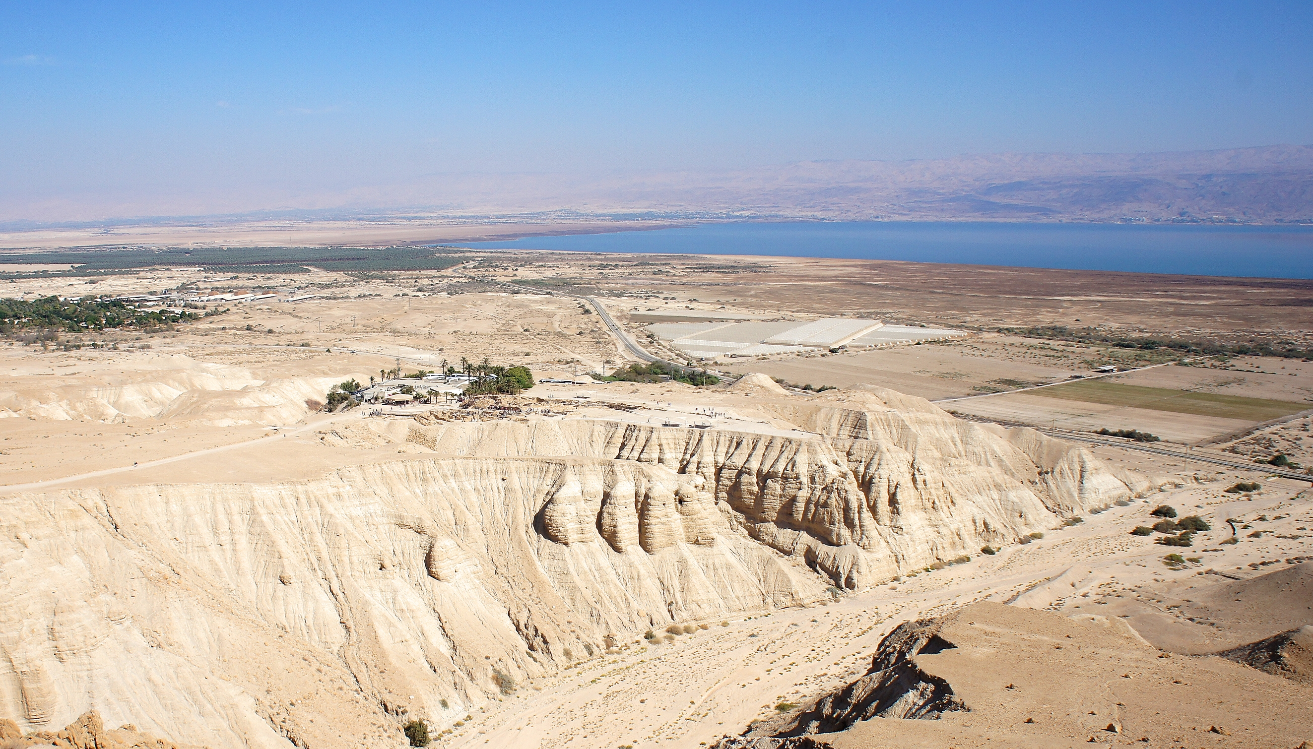 Qumran, West Bank.